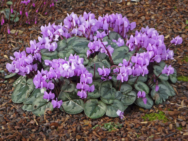 Cyclamen, Kew Gardens, Kew, Surrey Magnificent cyclamen plant - just imagine the size of the corm.